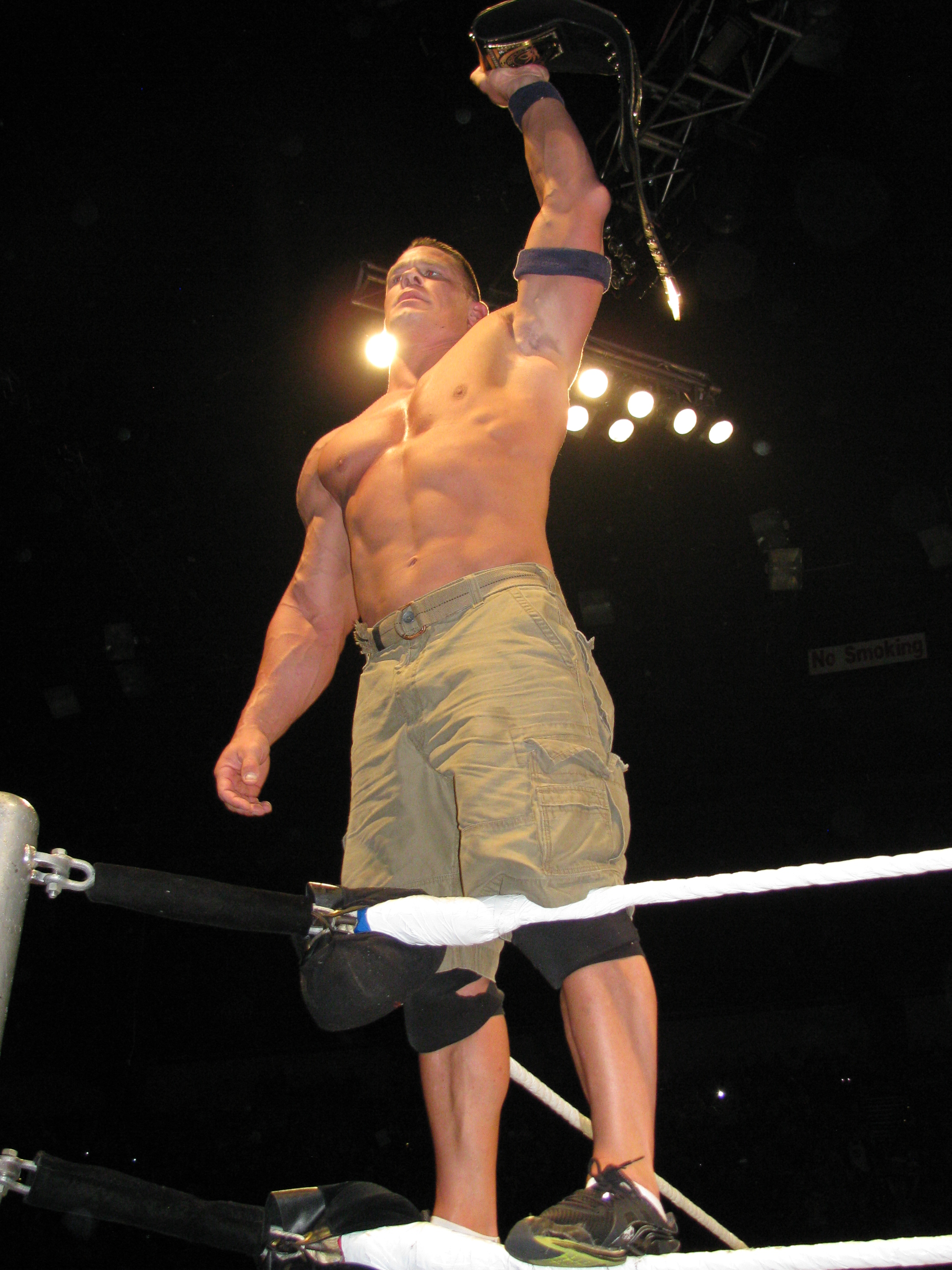 John Cena @ Adelaide, South Australia WWE house show on the 29th of July '13